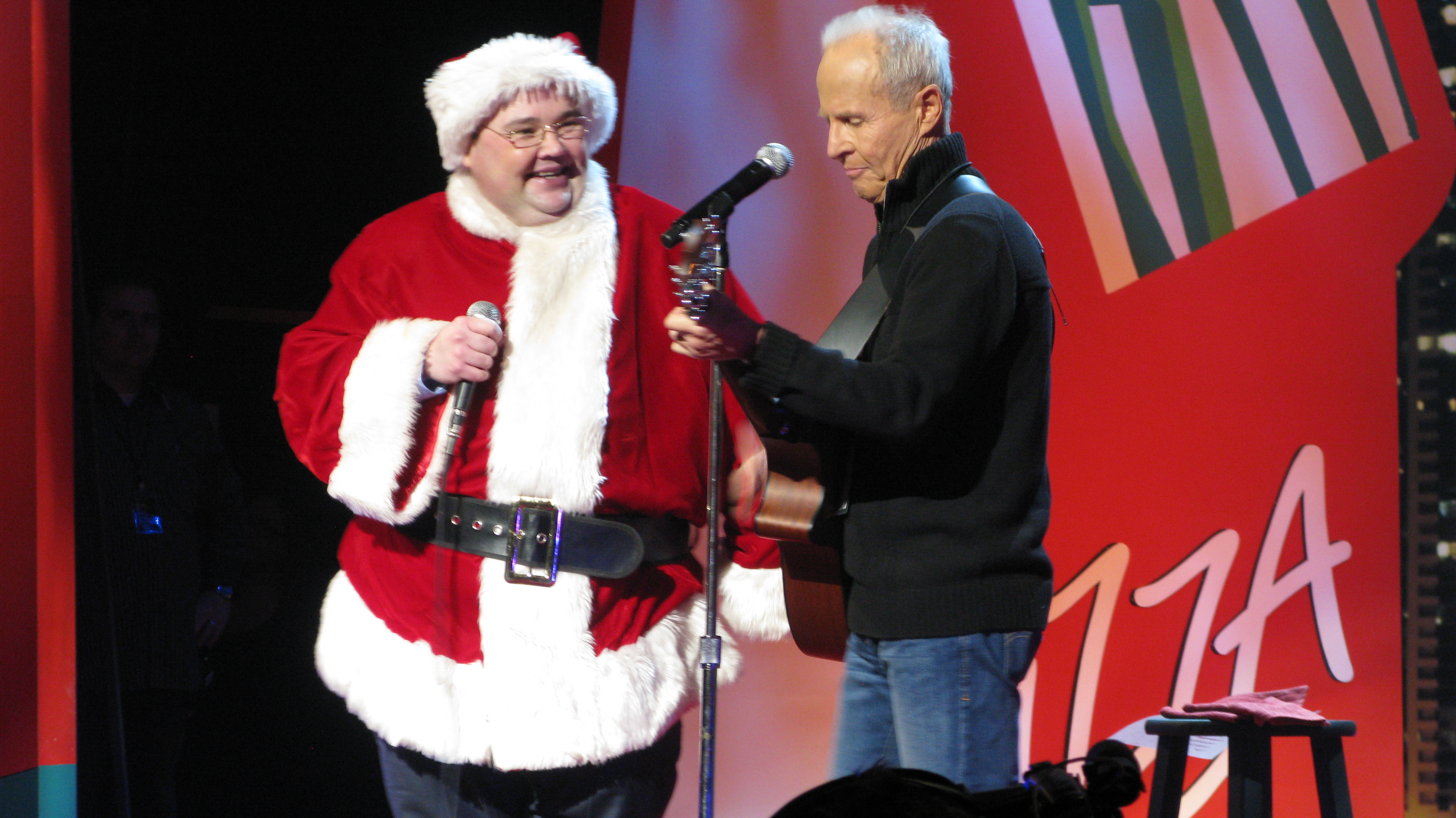 Dr. Elmo (Grandma Got Run Over by a Reindeer) appears with comedian John Pinette in his Comedy Central TV special 2010